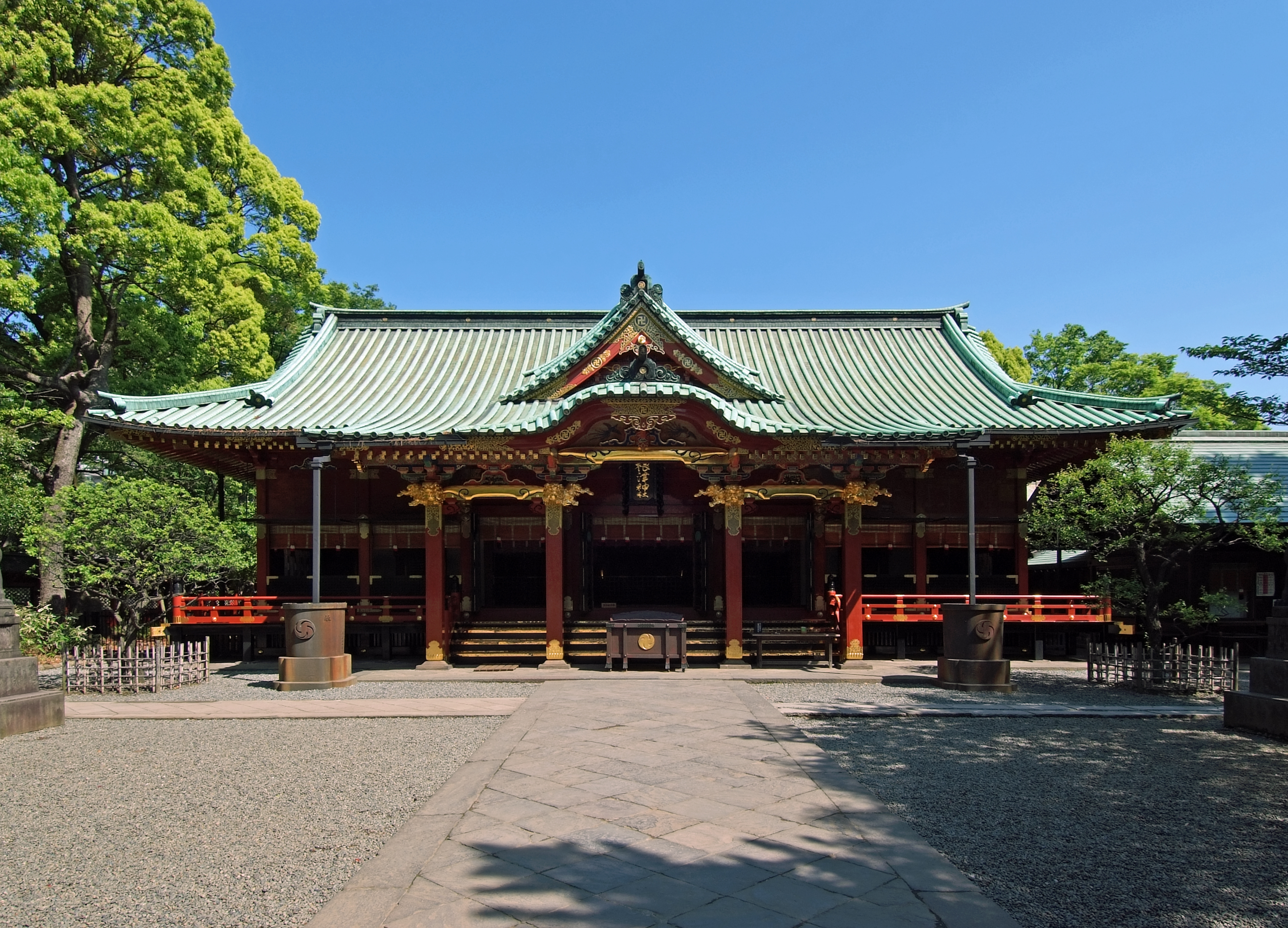 Nezu Shrine, Bunkyo-ku Tokyo Japan, 1706.